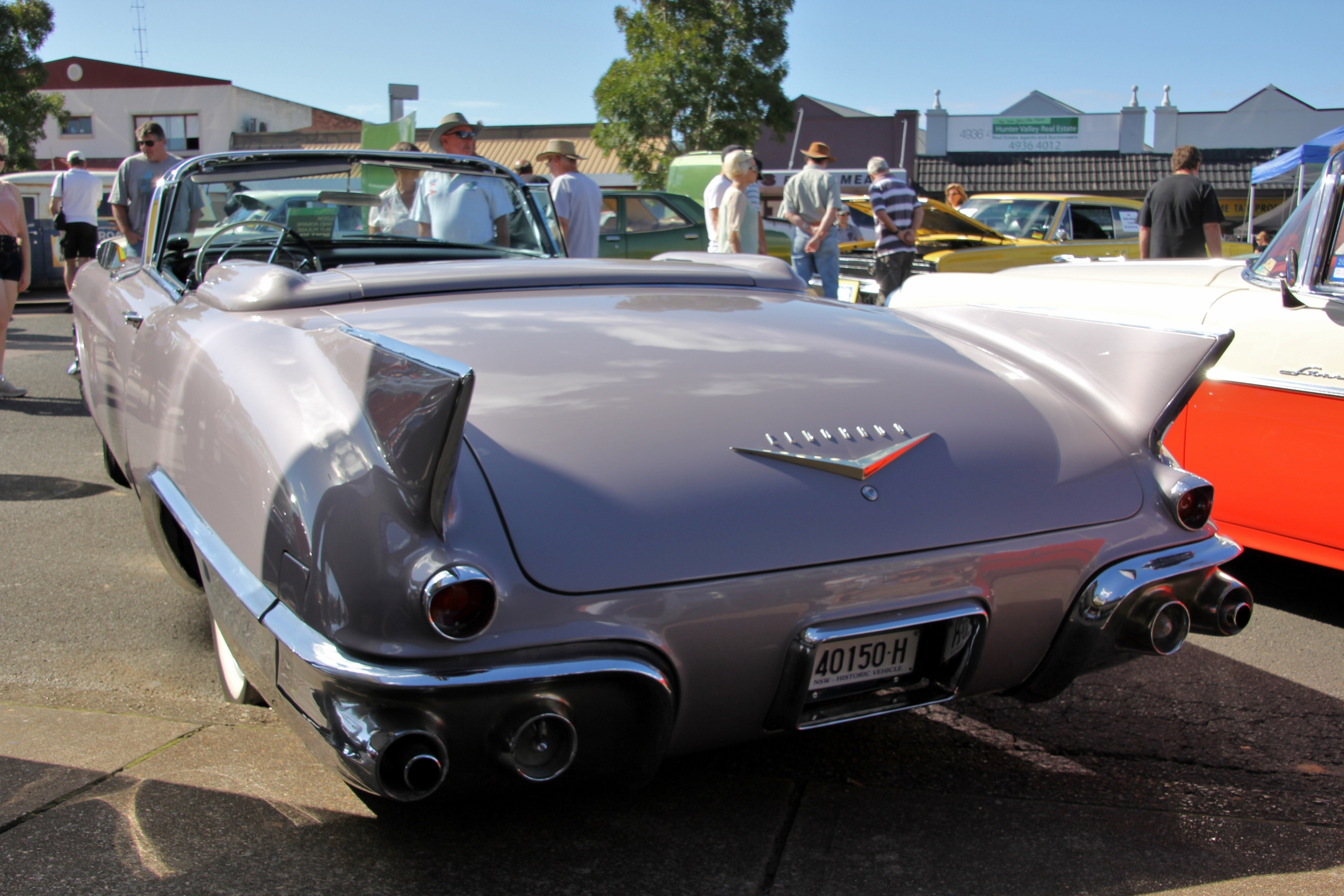 1957 Cadillac Eldorado Biarritz convertible. Taken at the 2012 Kurri Kurri Nostalgia Festival, held in Kurri Kurri, New South Wales.